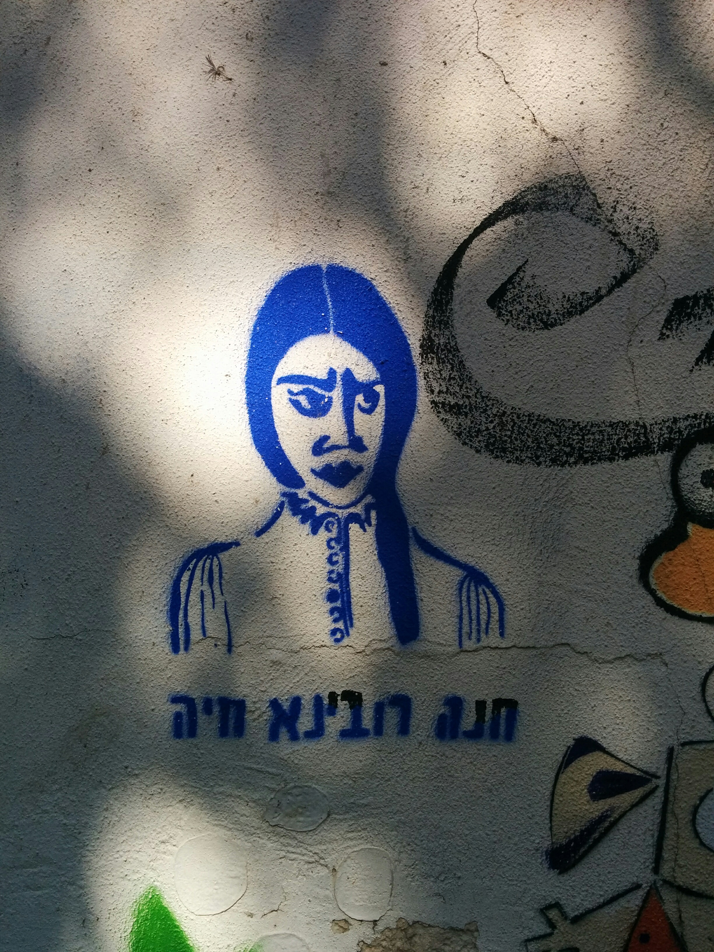 Graffiti in Tel-Aviv